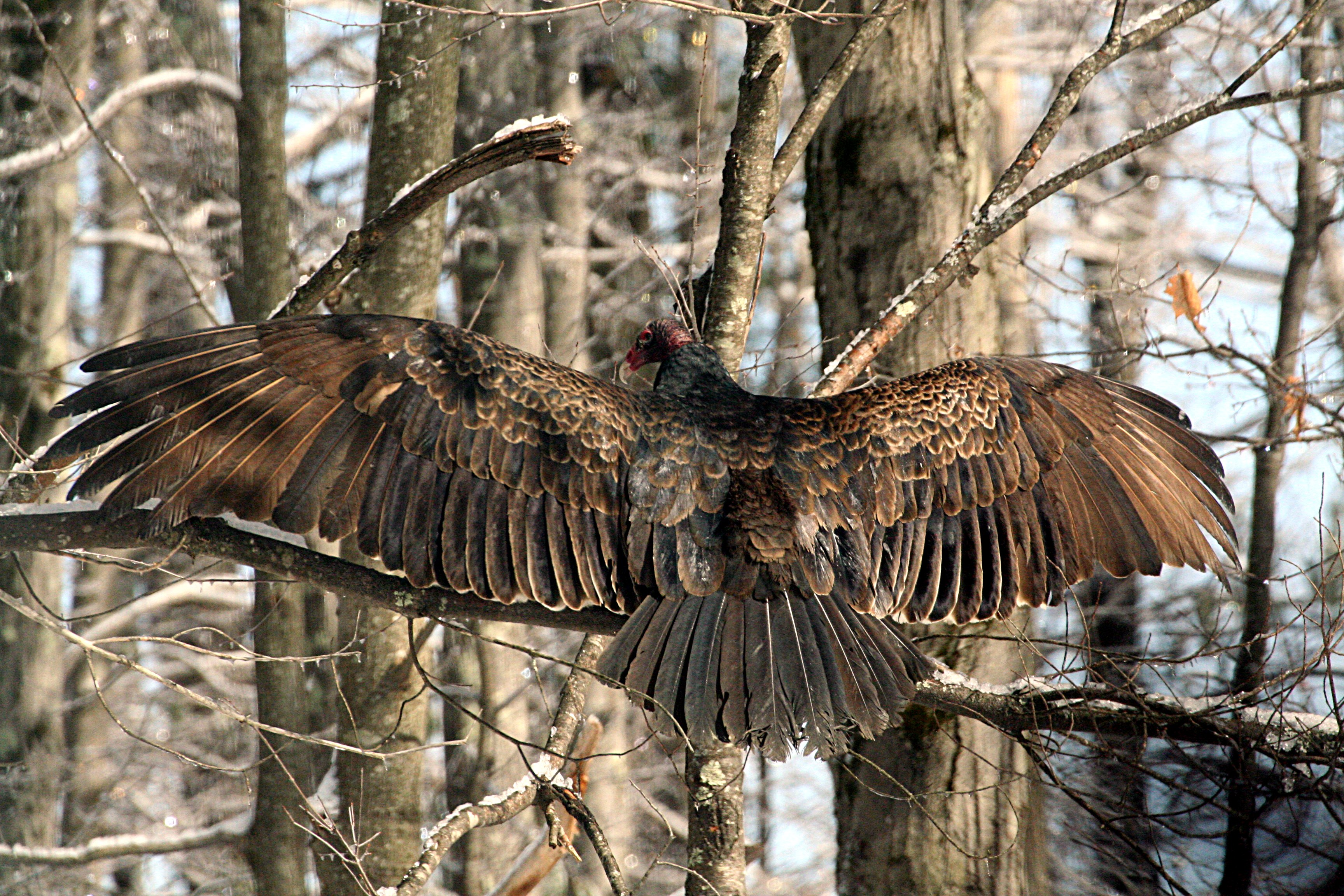 Turkey Vulture drying wings in tree. Central Massachusetts USA, 26 February 2011.